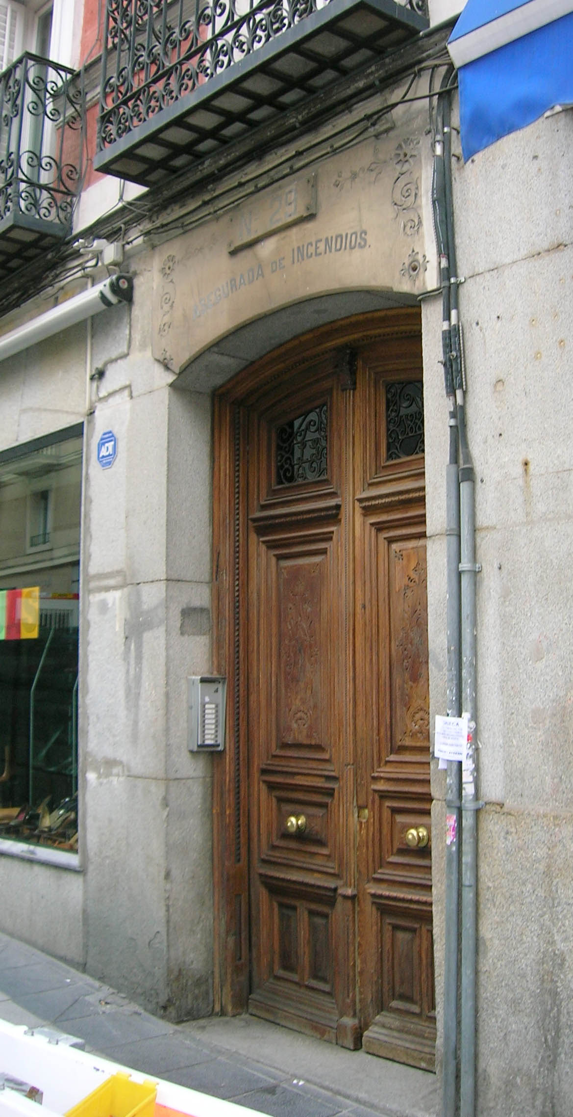 Door to the house where Spanish writer Enrique Jardiel Poncela was born, at nº 25 of the street currently called Figueroa, in Chueca, Madrid.